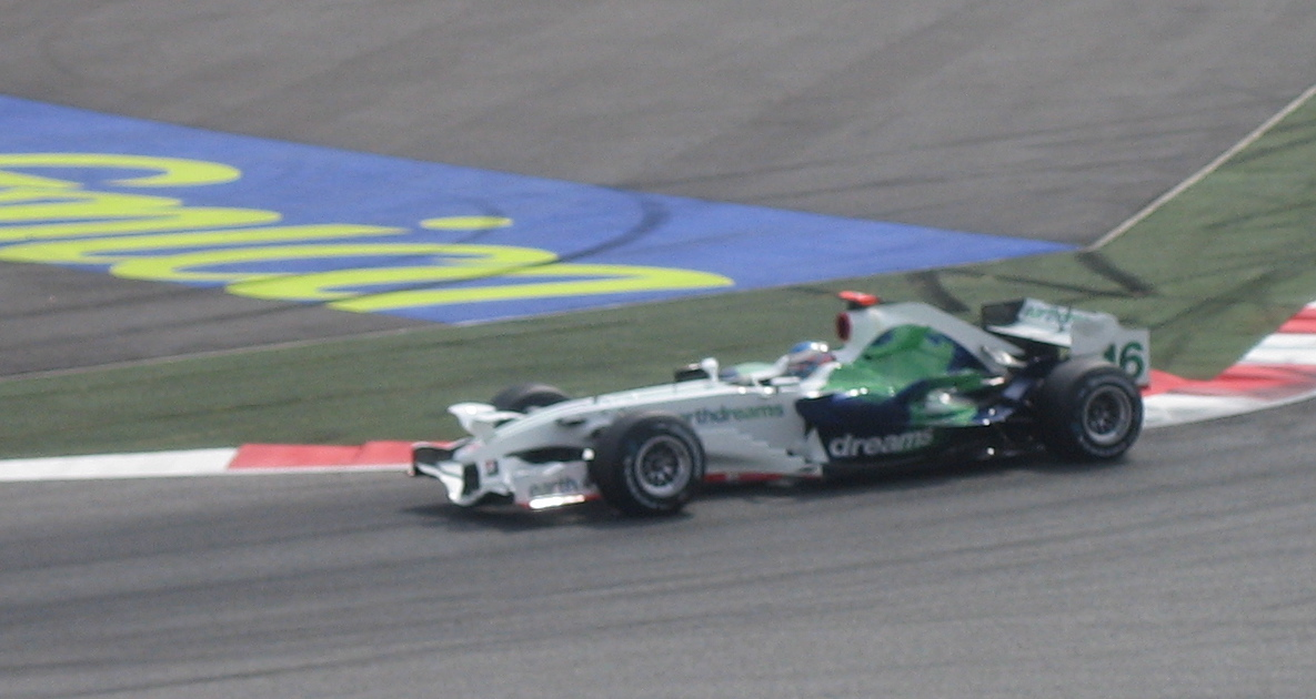 Jenson Button driving for Honda F1 at the 2008 Spanish Grand Prix.